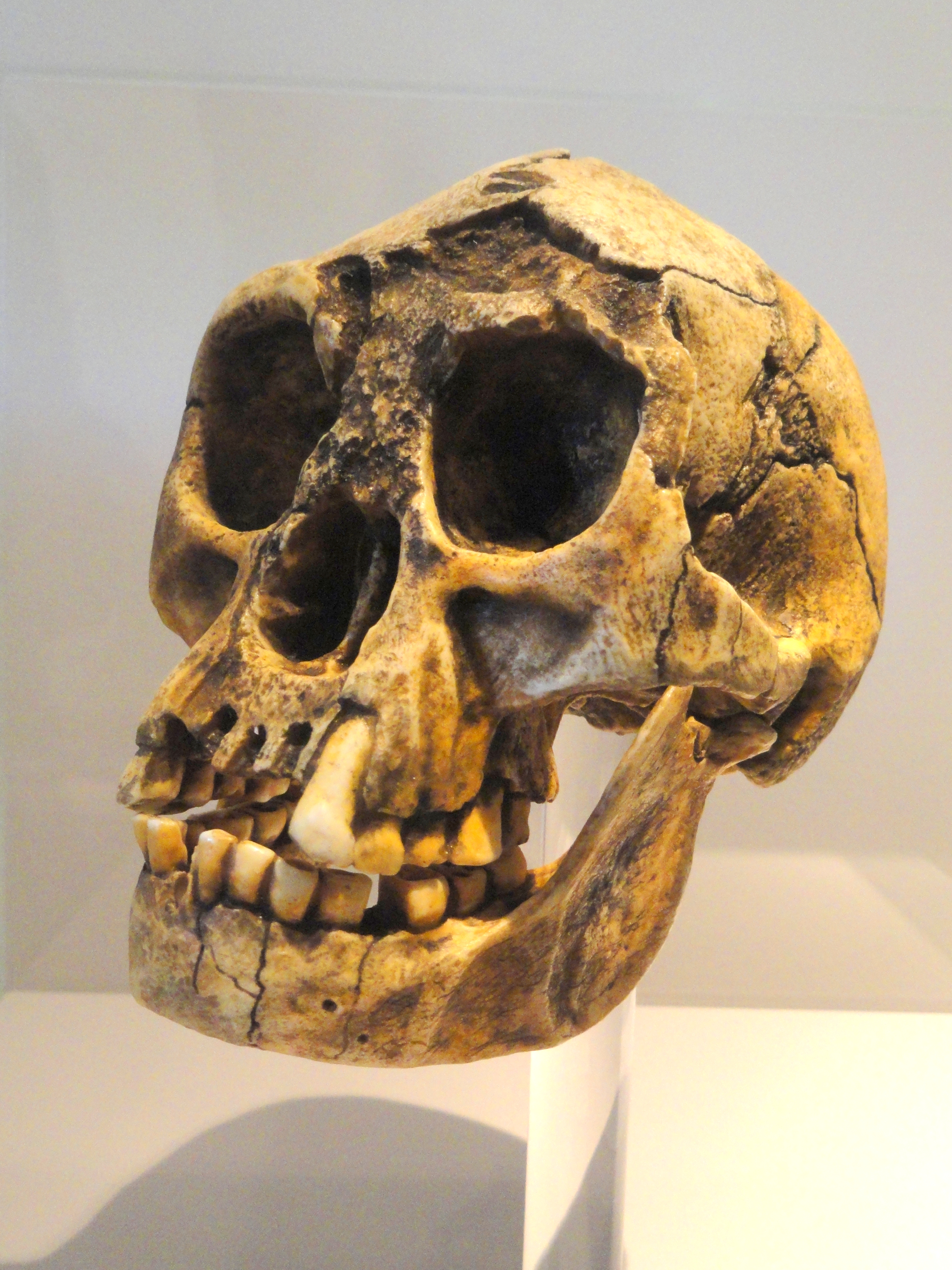 Exhibit in Naturmuseum Senckenberg, Frankfurt am Main, Germany.